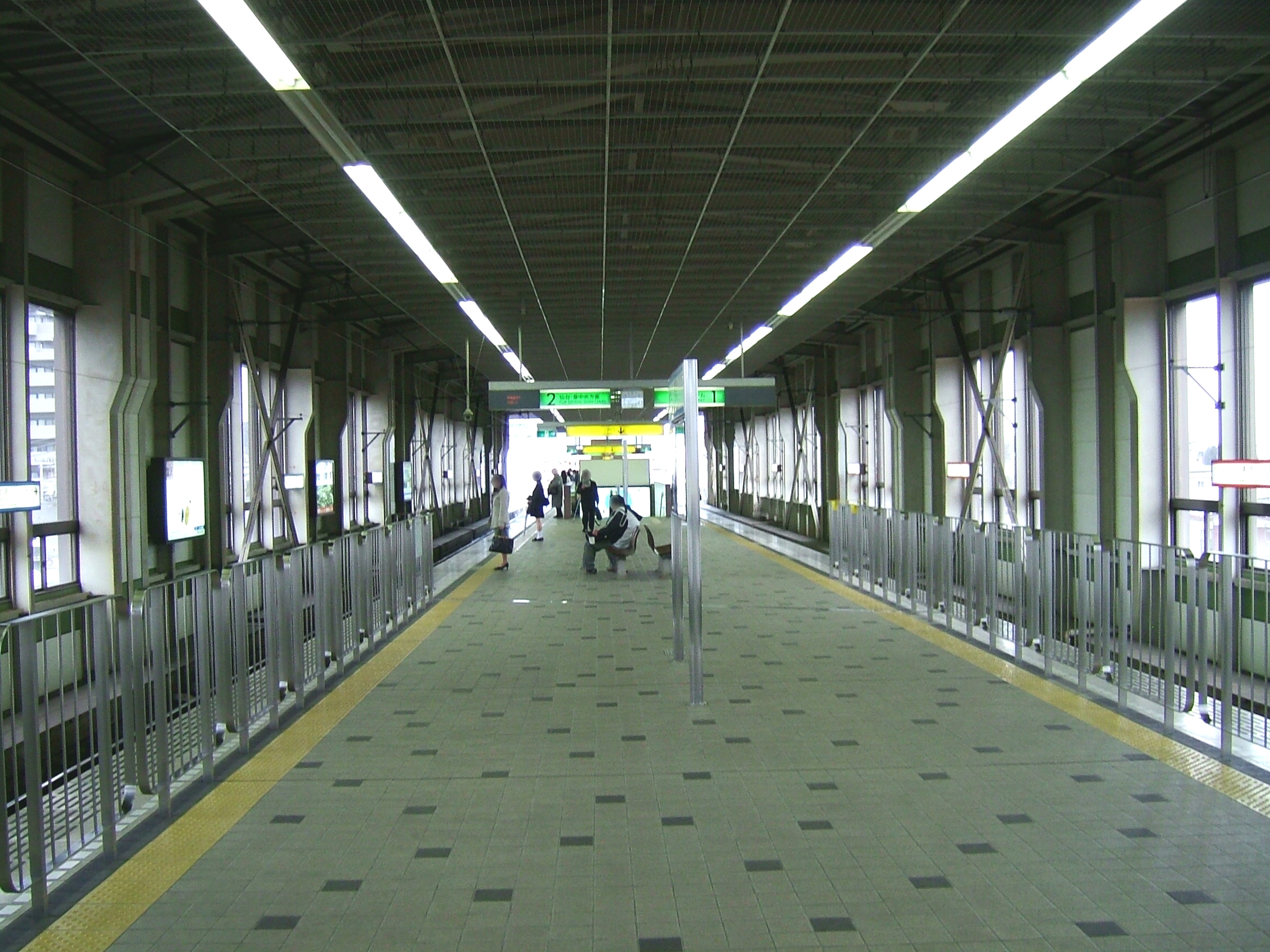 The platform of Tomizawa Station, Sendai subway Nanboku Line